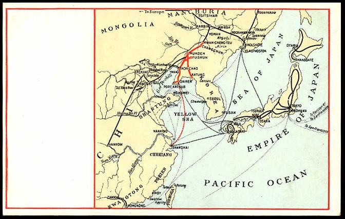 Promotional postcard issued by the South Manchuria Railway Co., which provides the "Shortest and quickest route between the Far East and Europe via Dairen". The South Manchuria Railway network is shown in orange.